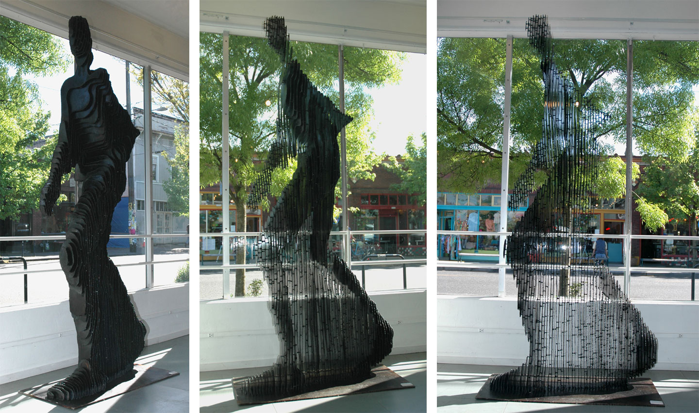 Sculpture "Quantum Man" (2006). Size: 98" x 20" x 44" Medium: Darkened Steel